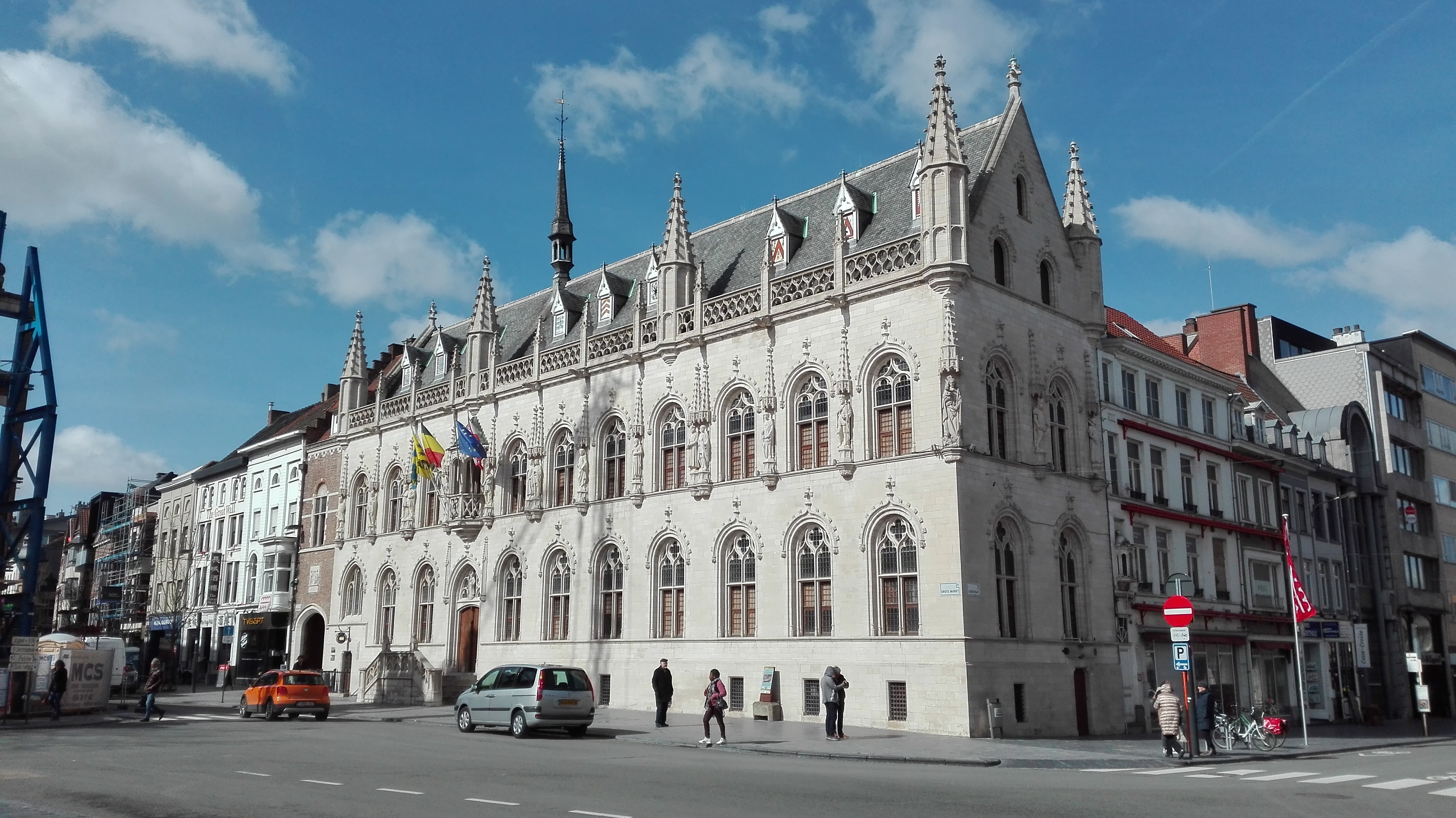 Town Hall of Kortrijk (Belgium)